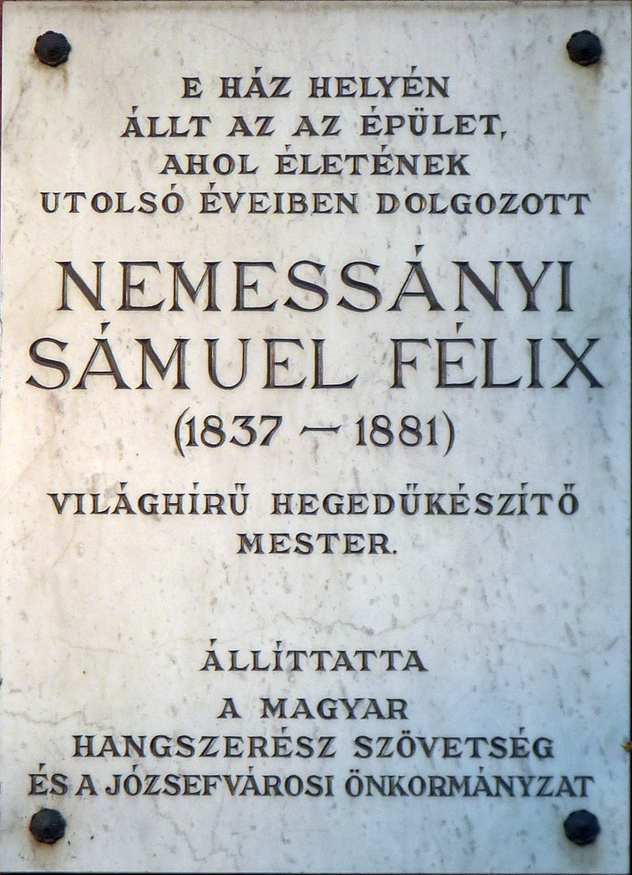 Commemorative plaque to Mr. Samuel Felix Nemessányi (1837 – 1881) Hungarian luthier, affixed to the wall of the building erected on the site where was his house. (Budapest, District VIII, Nagy Fuvaros Street Nr 18).